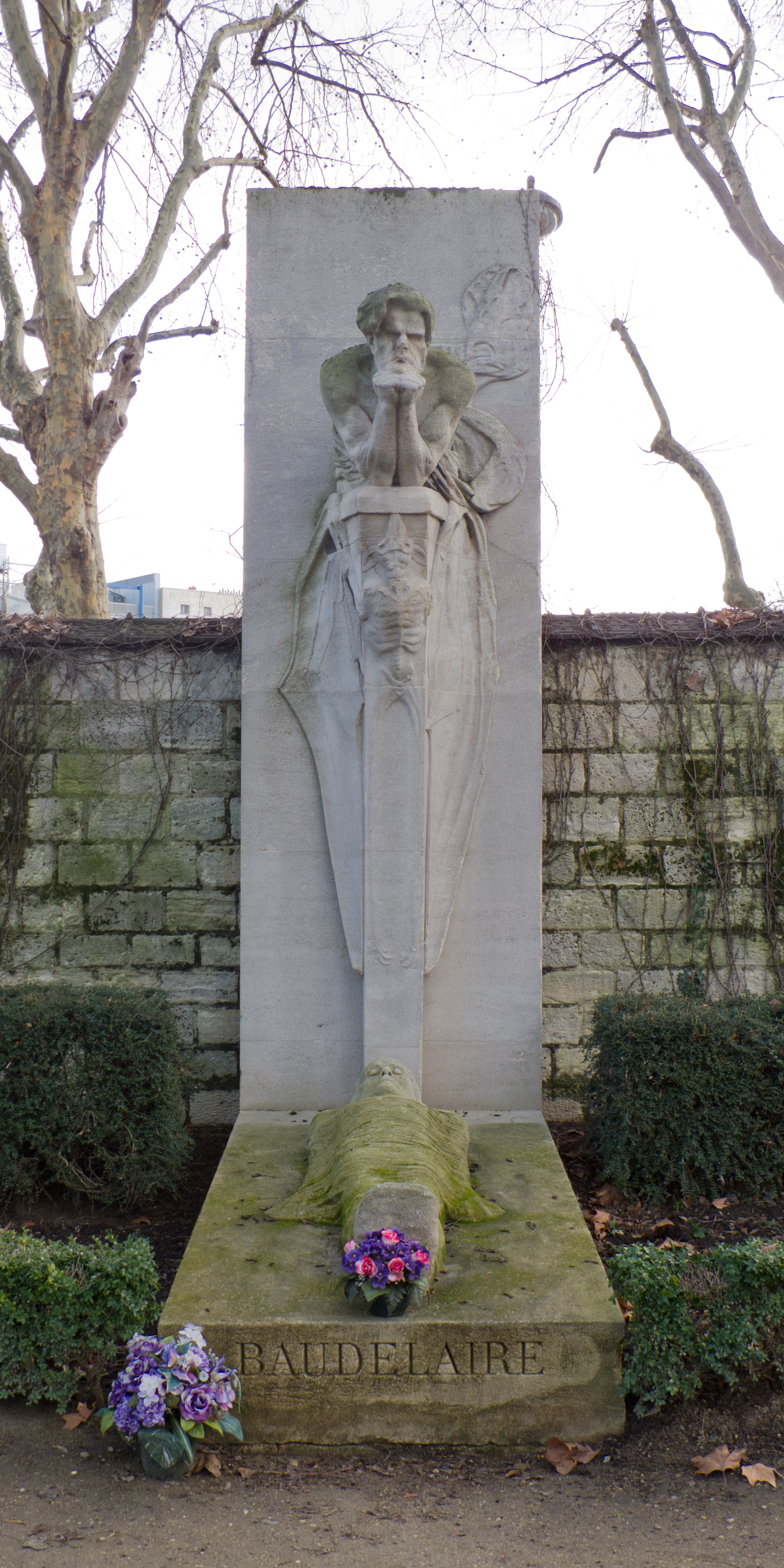 Cenotaph to Charles Baudelaire in the Cemetery of Montparnasse, Paris, France.